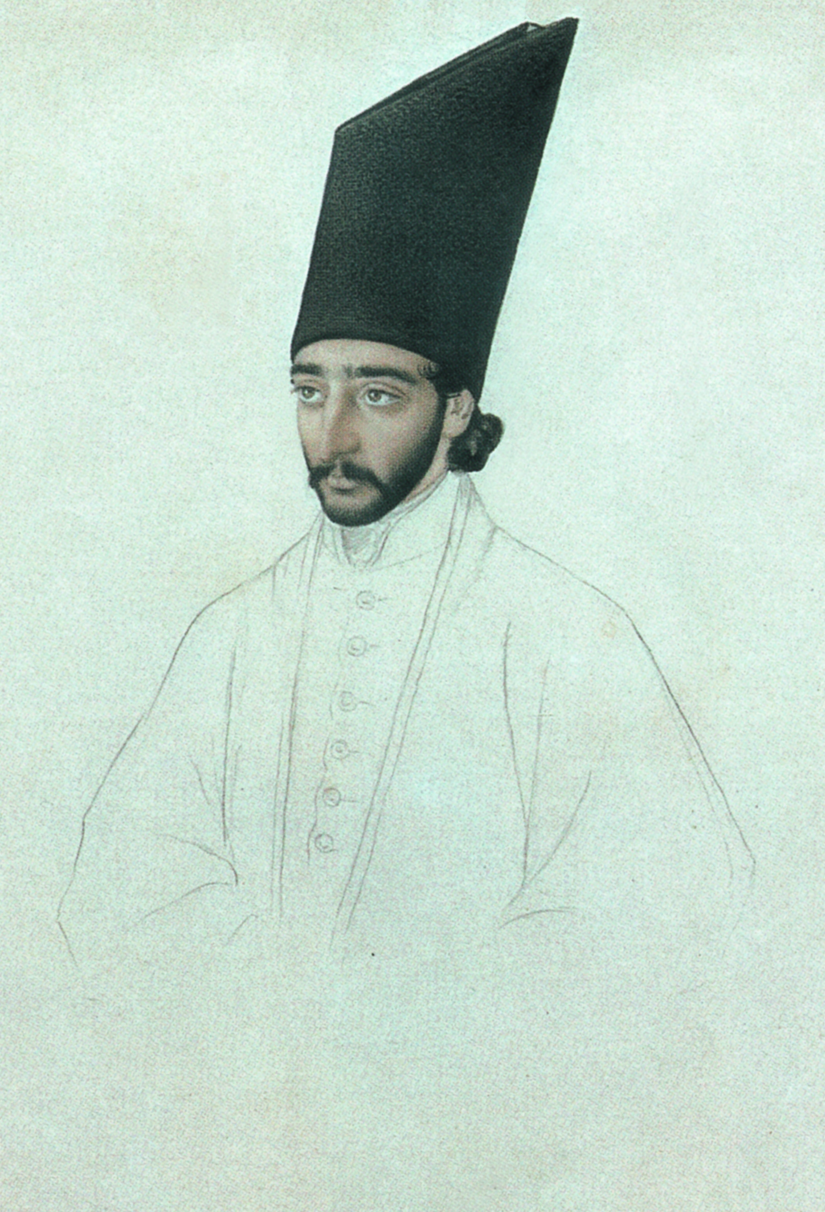 A study of Shir Khan Eyn ol-Molk by Sani ol-Molk.